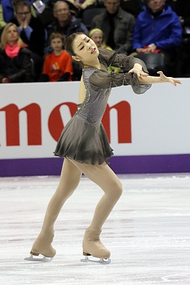 Kim 2013 World Championship FS